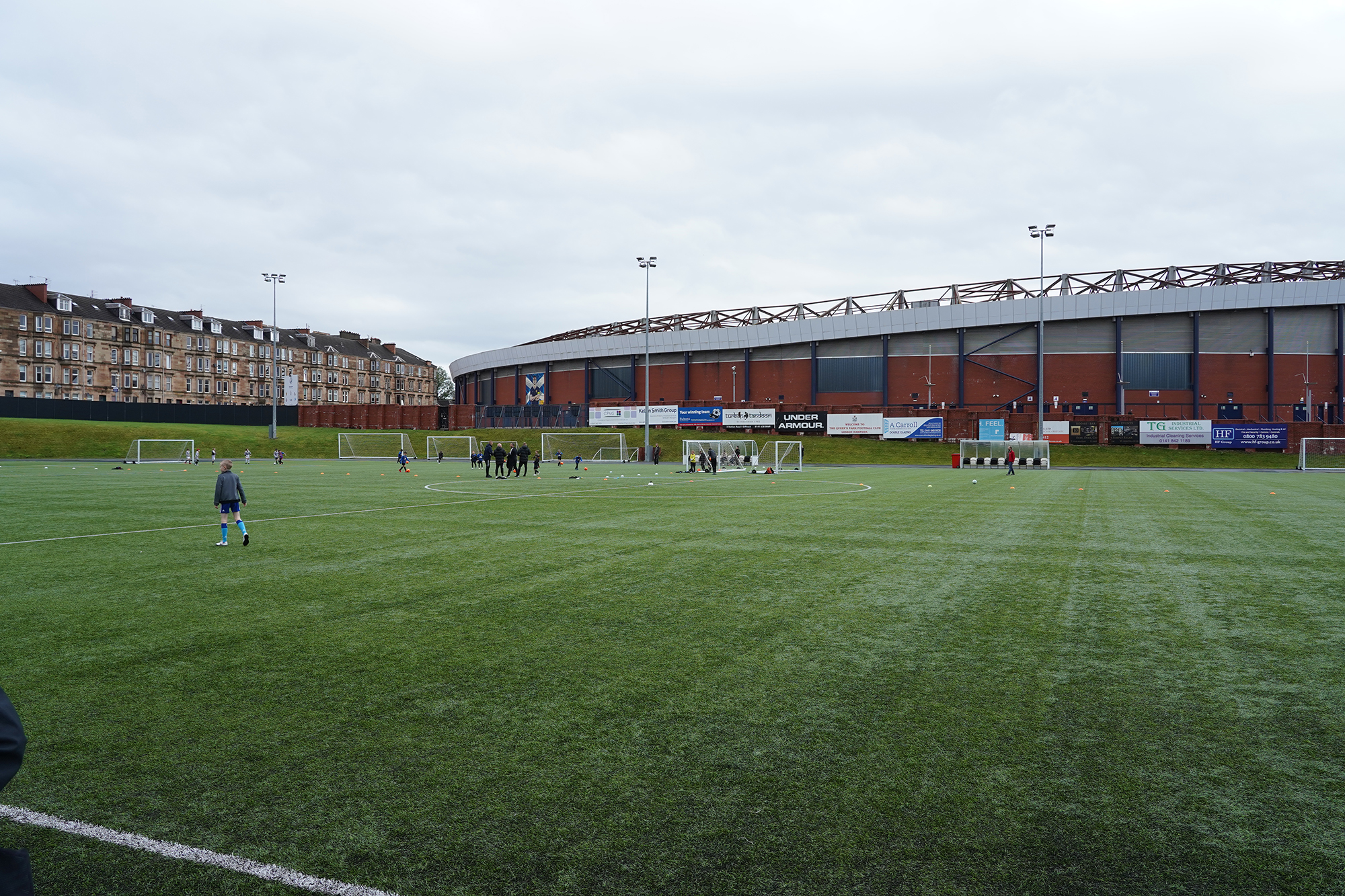 A junior tournament